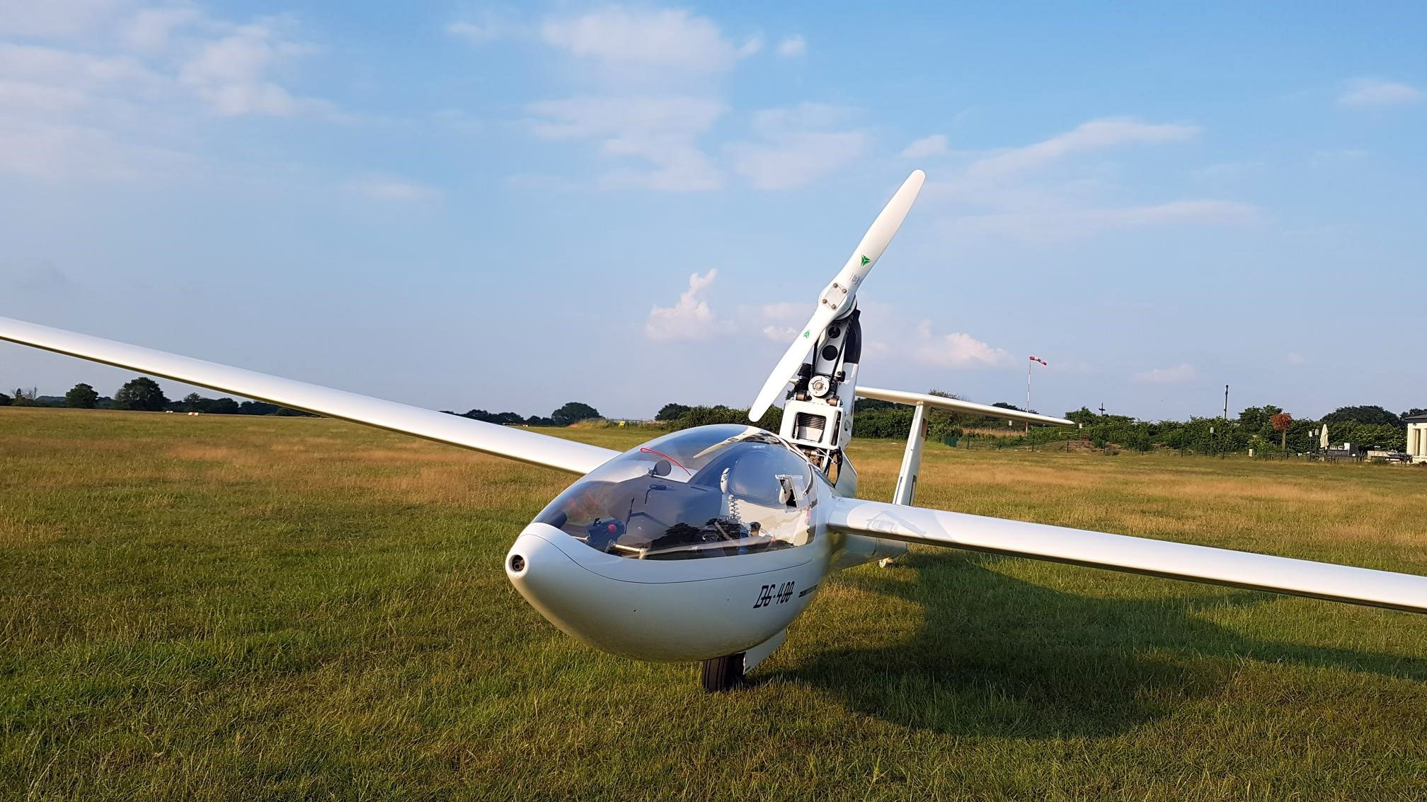 Glaser-Dirks Flugzeugbau, DG 400 fuselage with engine Rotax 505 extracted, MT propeller and noise protection